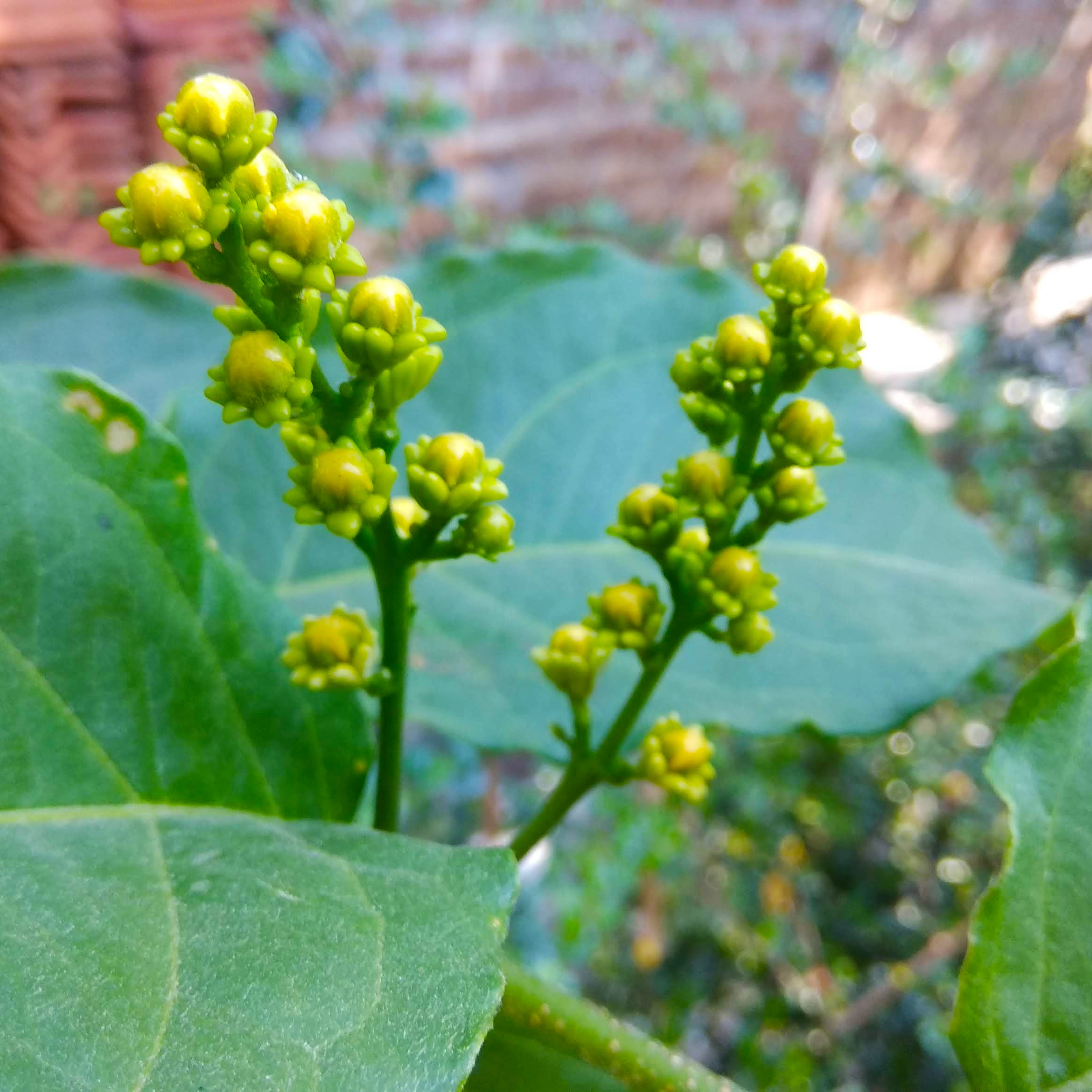 Bunchosia argentea flower buds